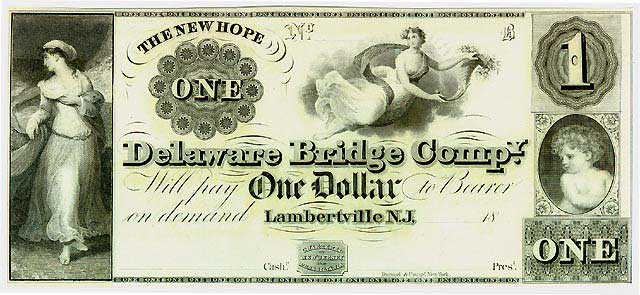 From the American currency exhibit at the Federal Reserve Bank of San Francisco. Between 1837 and 1866, a period known as the "Free Banking Era," lax federal and state banking laws permitted virtually anyone to open a bank and issue currency. Paper money was issued by states, cities, counties, private banks, railroads, stores, churches, and individuals. By 1860, an estimated 8,000 different state banks were circulating what were sometimes called "wildcat" or "broken" bank notes. The term "wildcat bank" referred to the remote locations of some banks, more accessible to wildcats than people. When a bank "went broke," the currency they issued became worthless. The era ended with the passing of the National Bank Act of 1863.